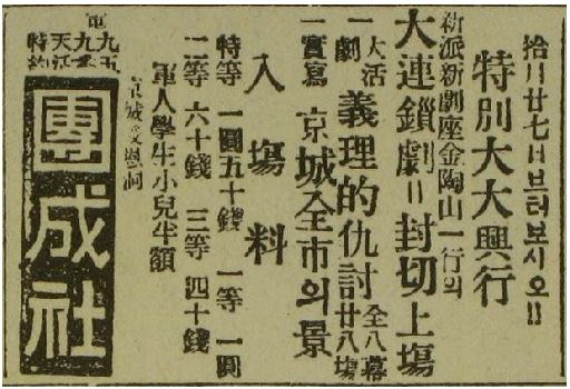 Advertisement in Maeil Sinbo newspaper on 1919. 10. 28. for the kino-drama Uirijeok guto.